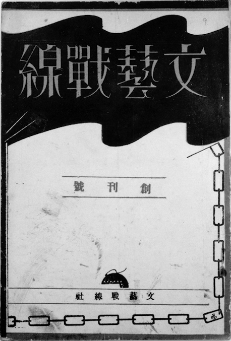 Cover of the first issue of Bungei Sensen